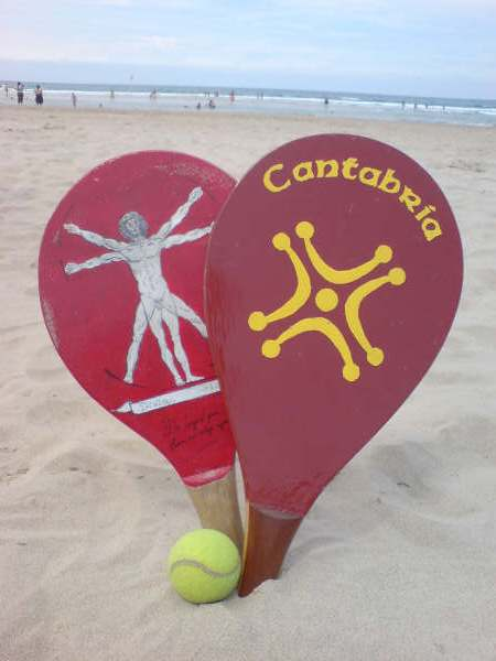 Cantabrian paddle in Berria Beach, Santoña, Cantabria, Spain. Montañés: Palas cántabras nel Sable de Berria, Santoña, Cantabria.